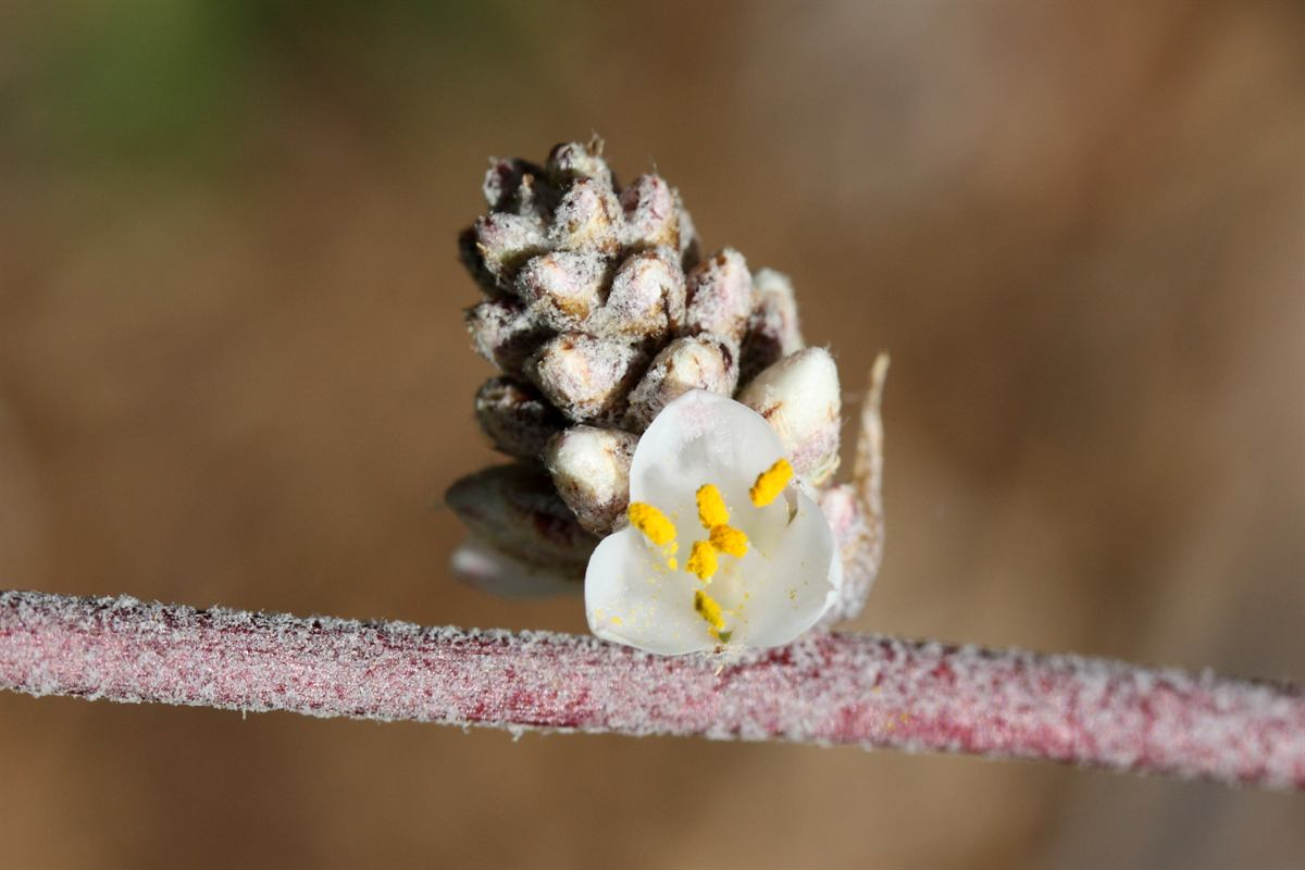 Hechtia texensis male flower